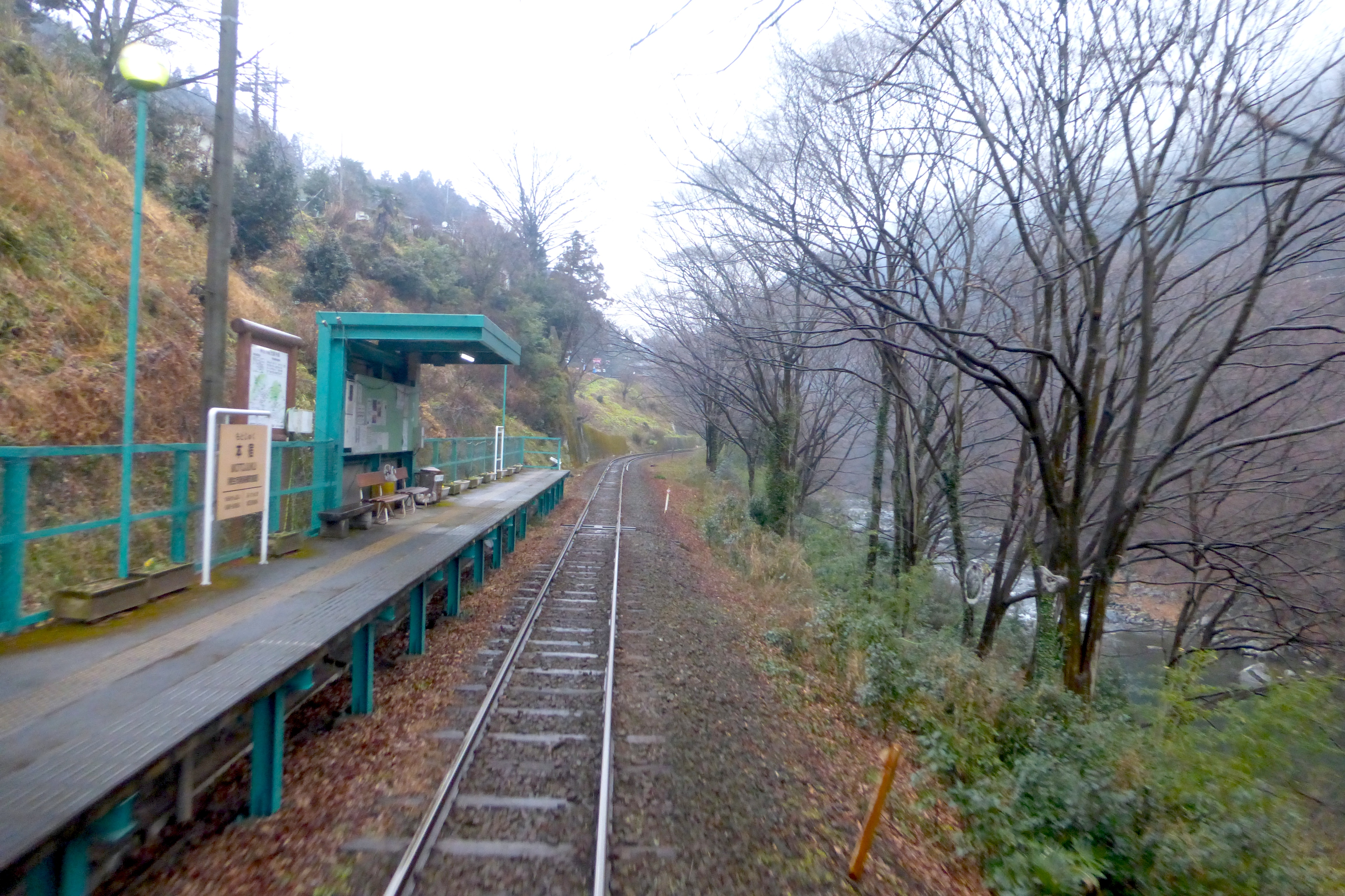 Motojuku Station (本宿駅 Motojuku-eki) platform (and station waiting area) on a rainy/snowy day.